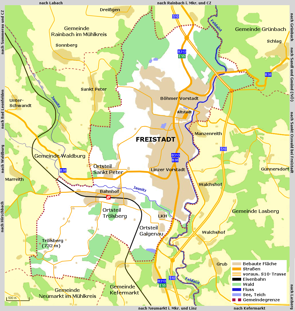 There is a separate English Version available - look there